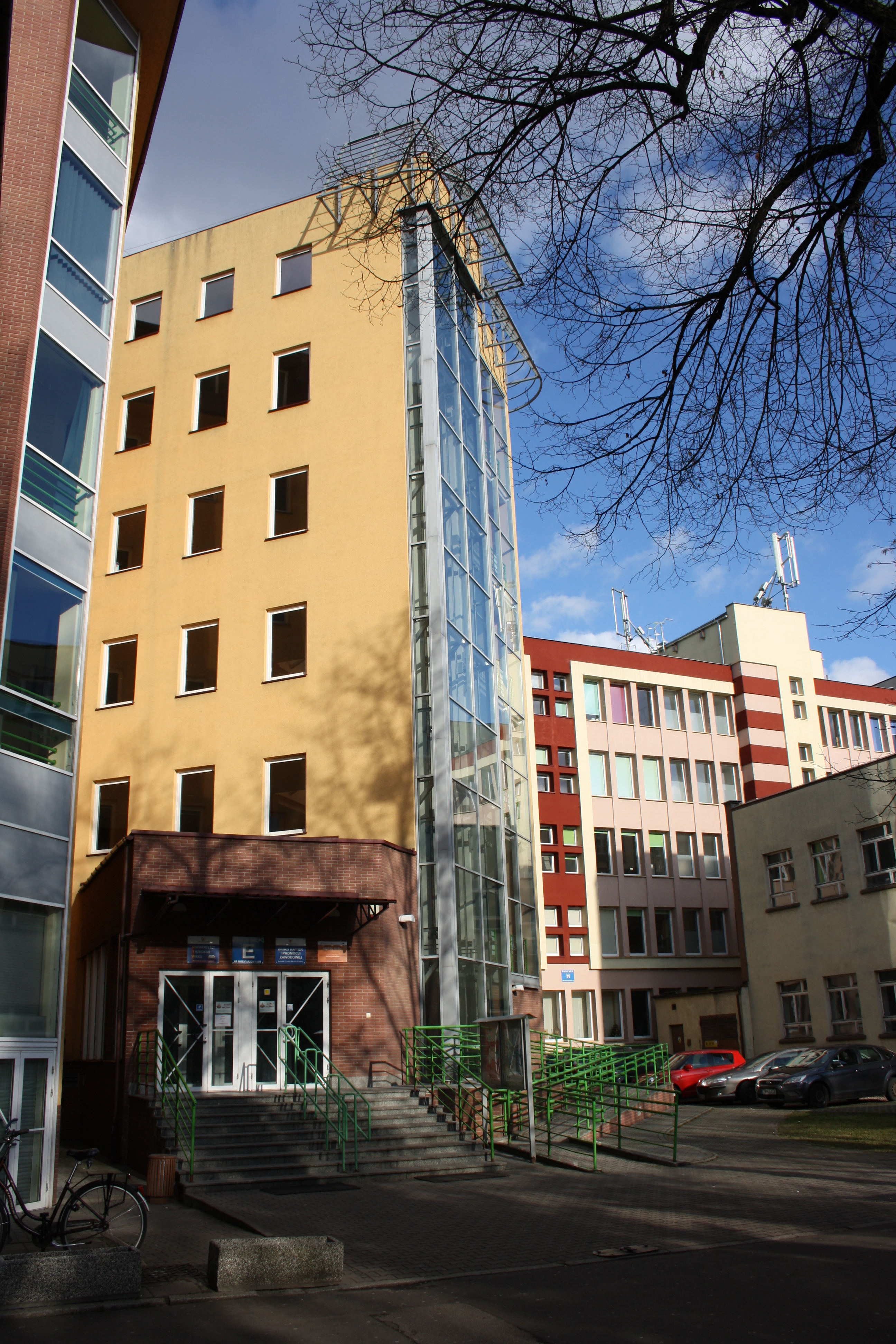 Wrocław University of Economics - Building E - West Perspective